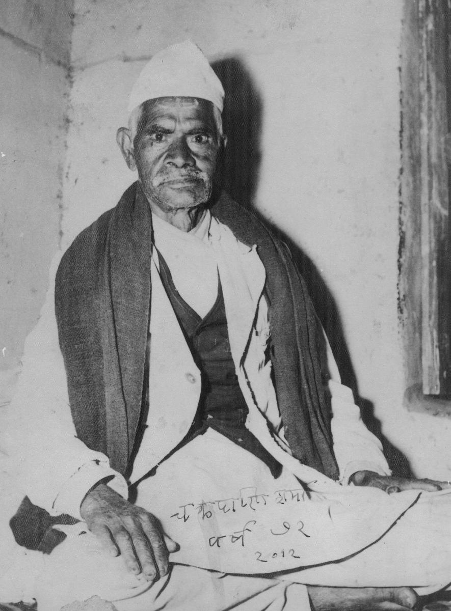 Chakrapani Sharma Chalise (1883-1955), writer of first Nepali anthem "Shreeman Gambhira"; photograph states Bikram Sambat year 2012 which is 1955/56 of Gregorian calender